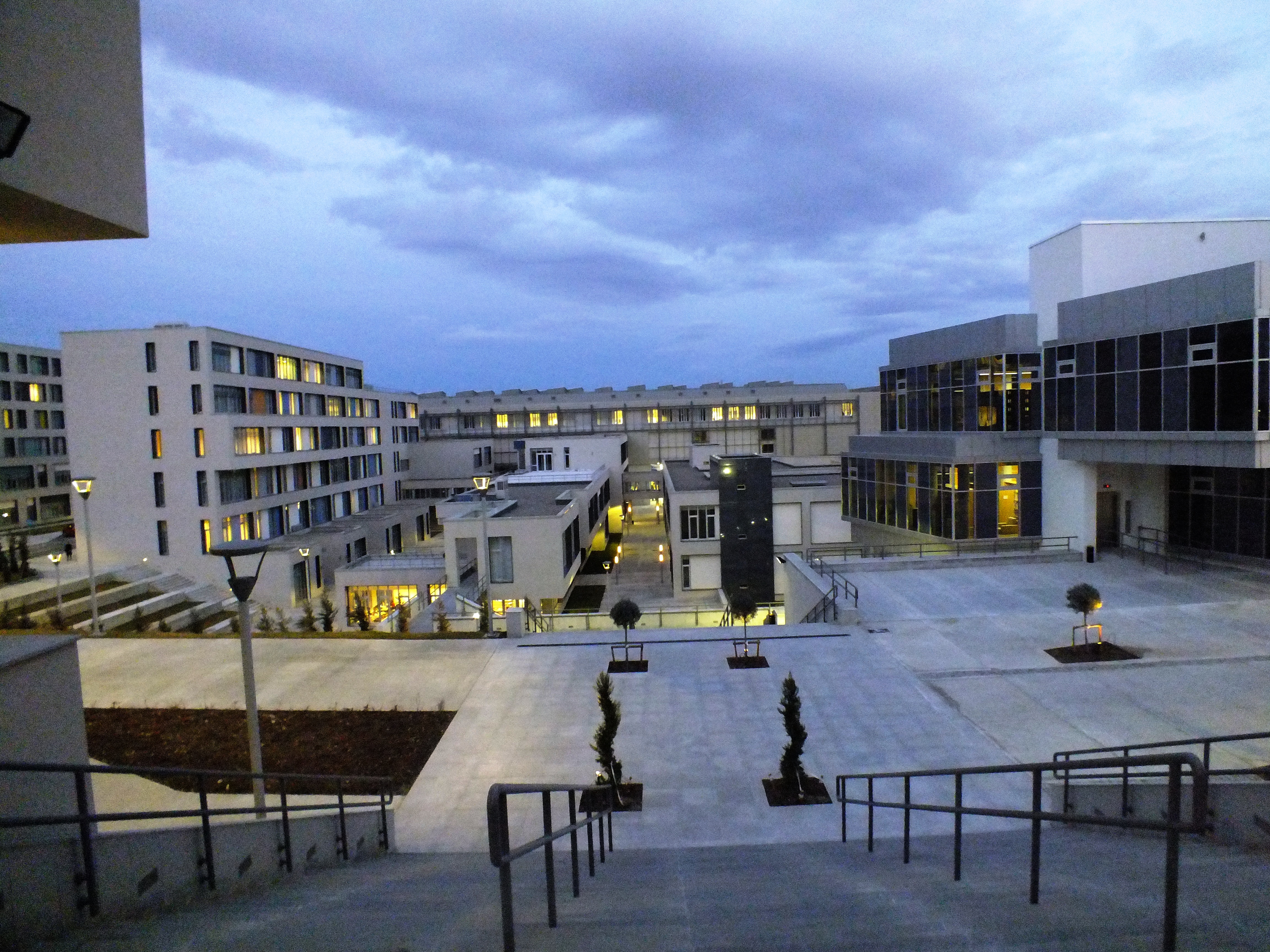 A view of the Çankaya University Turkuaz campusTürkçe: Çankaya Üniversitesi'nin Turkuaz kampüsünden bir görünüm